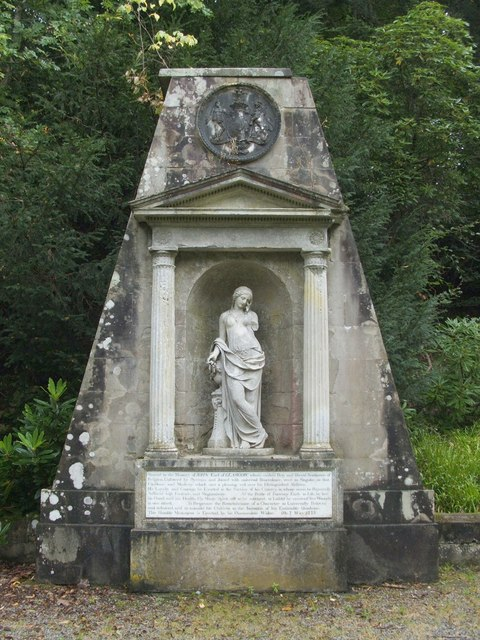 Memorial to the third Earl of Glasgow. This monument to the third Earl (John Boyle, 1714-1775) was erected on the instructions of his widow (Elizabeth, the 3rd Countess). It is made of marble, and is the work of the famous Scottish architect Robert Adam. The inscription below the statue reads as follows: "Sacred to the Memory of JOHN Earl of GLASGOW, whose exalted Piety and liberal Sentiments of Religion, Unfetterd [sic] by Systems; and Joined with universal Benevolence; were as Singular, as that Candour and Modesty which cast a pleasing veil over his Distinguished Abilities. His Loyalty and Courage he Exerted in the Service of his Country, in whose cause, he Repeatedly Suffered with Fortitude, and Magnanimity. At the Battle of Fontenoy Early in Life, he lost his Hand, and his Health; His Manly Spirit, not to be subdued; at Lafeld he received Two Wounds, in one attack. To Perpetuate the Remembrance of a Character so Universally Beloved and admired, and to animate his Children to the Imitation of his Estimable Qualities, This Humble Monument is Erected, by his Disconsolate Widow. Ob. 7 May 1775." The monument stands next to a footpath, and overlooks a glen through which the Kel Burn runs. Its location was chosen by the Countess, who was particularly fond of this spot. At the top of the monument is a medallion with the Boyle coat of arms, incorporating the same symbolism as appears on the lintel above the old door of Kelburn Castle; see 987410. It also includes the family motto, "Dominus Providebit" (The Lord Will Provide).